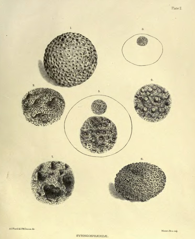 Syringosphaeridae, Karakoram stones, Fossils 1. The body of Syringosphaeria tuberculata, Duncan. Natural size. 2. A portion magnified, showing the tabulation on the surface of the body and monticules, and a few pores. 3. The body of Syringosphaeria porosa, Duncan, shown in outline, with a portion indicating the numerous pores. Natural size. 4. A portion magnified, showing numerous round pores with canal openings and the intermediate surface with indistinct tubulation. 5. The body of Stoliczkaria granulata, Duncan, shown in outline. The upper portion of details is of the size of nature, and indicates the numerous irregularly disposed granulations. The lower portion is in part magnified to show the numerous granulations, the tube openings on their top and their radiating tubulation on their sides and in the intervening space. 6. The body of Syringosphaeria monticularia, Duncan, variety aspera. Natural size. 7. A portion magnified, showing the openings of tubes on the monticules and the other tubulation, the black lines being interspaces between stout, crooked tubes.